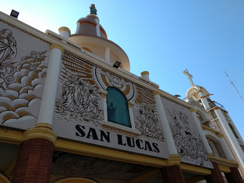 Parroquia San Lucas, Ciudad del Este, Paraguay